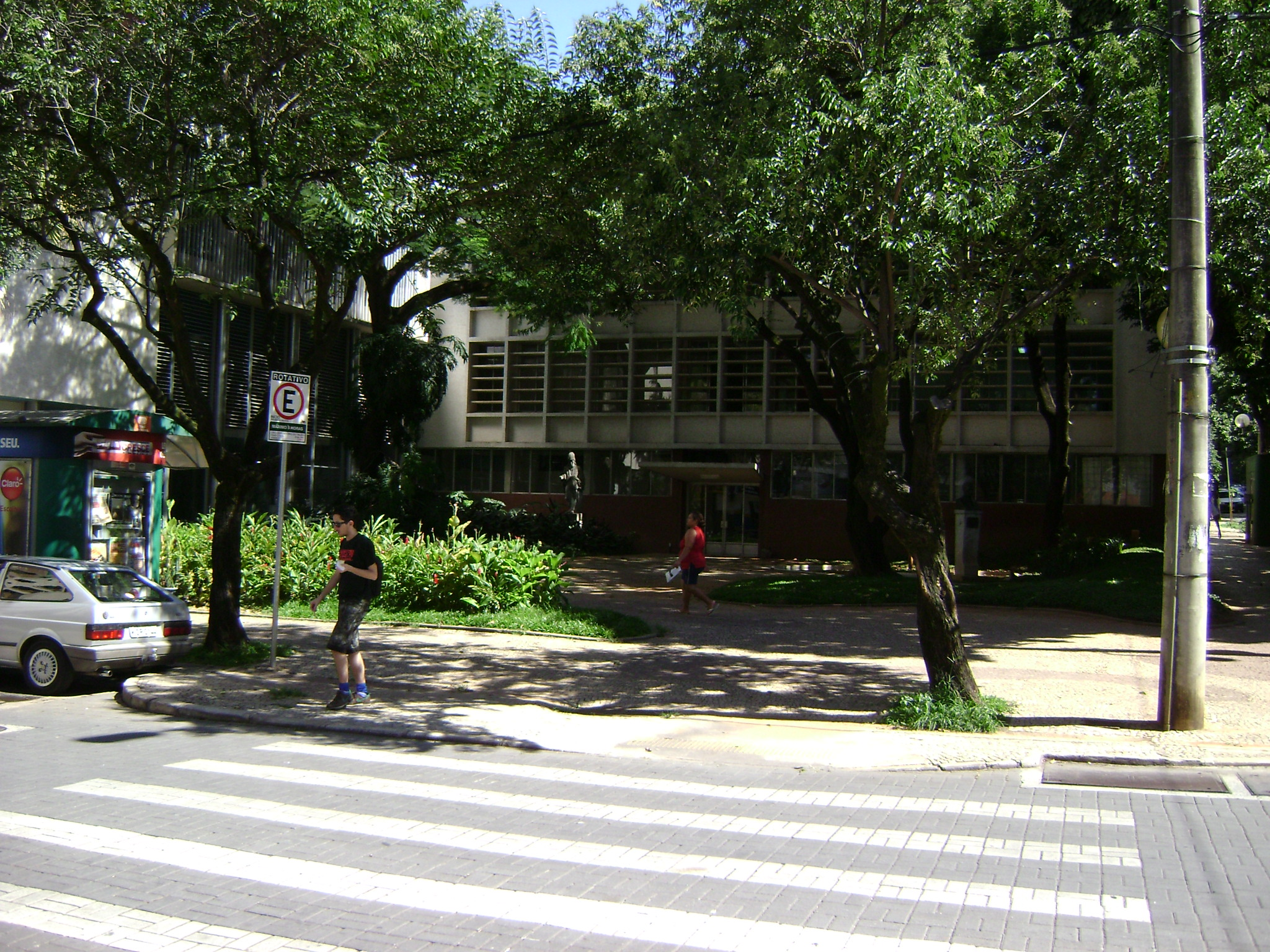 Escola de Arquitetura da UFMG